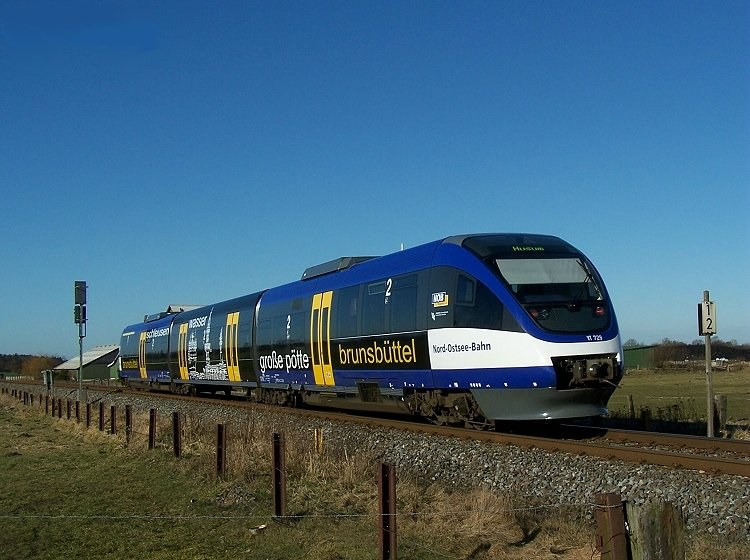 Train at the Nord-Ostsee-Bahn